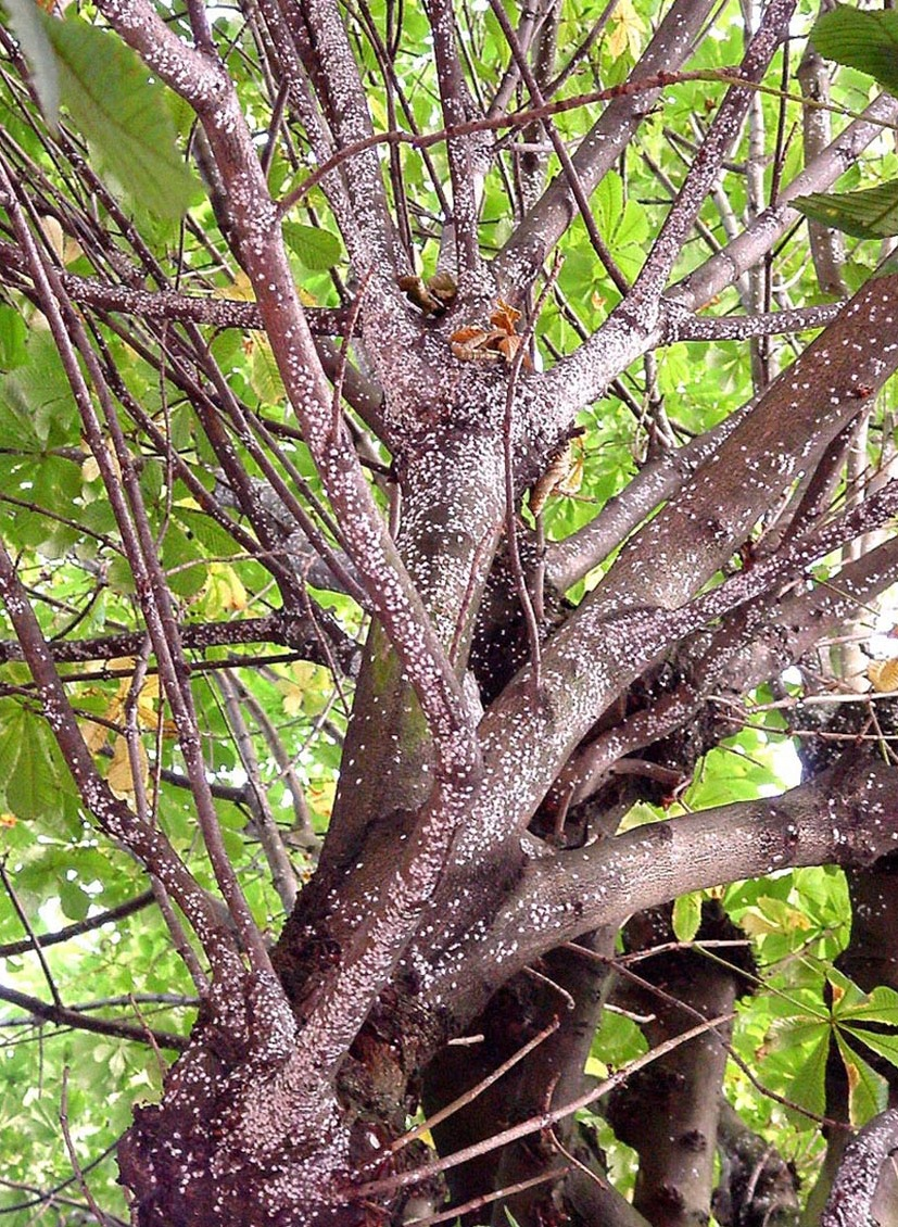 pathogen (Cochineal ?) on horse chestnut, Lille (north of France)